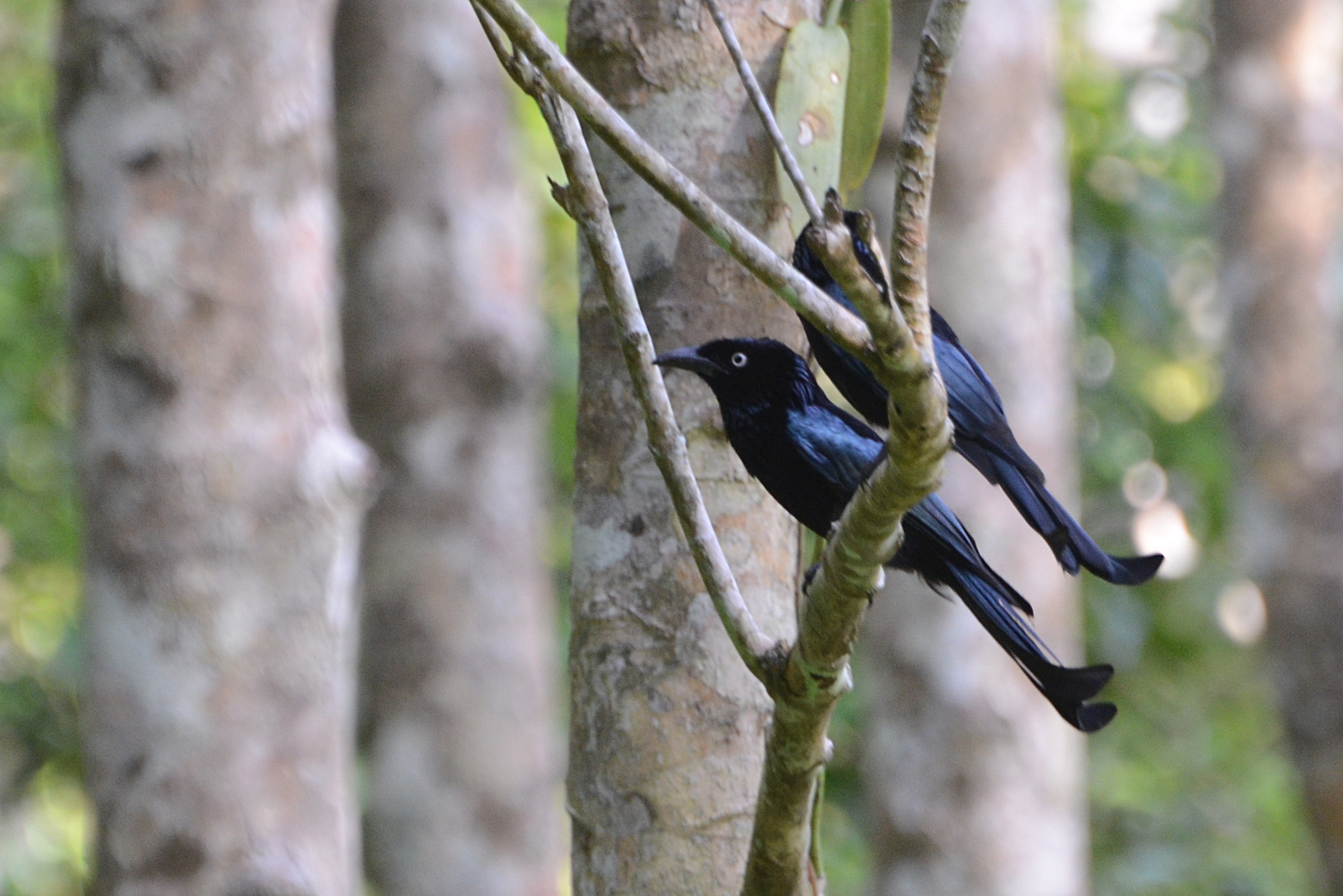 Hair-crested drongo (Dicrurus hottentottus) near Lake Kapeta, Siau Island, North Sulawesi